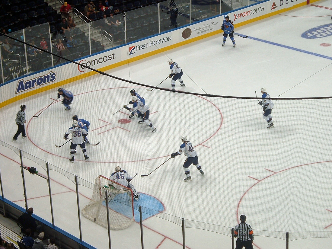 Thrashers on the offense against the St. Louis Blues